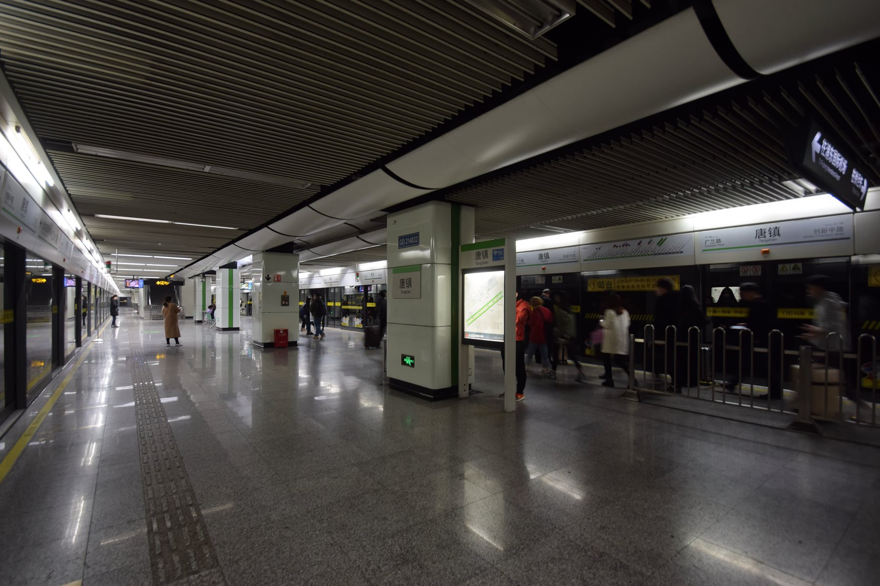 Line 2 Platform of Tangzhen Station, Shanghai Metro